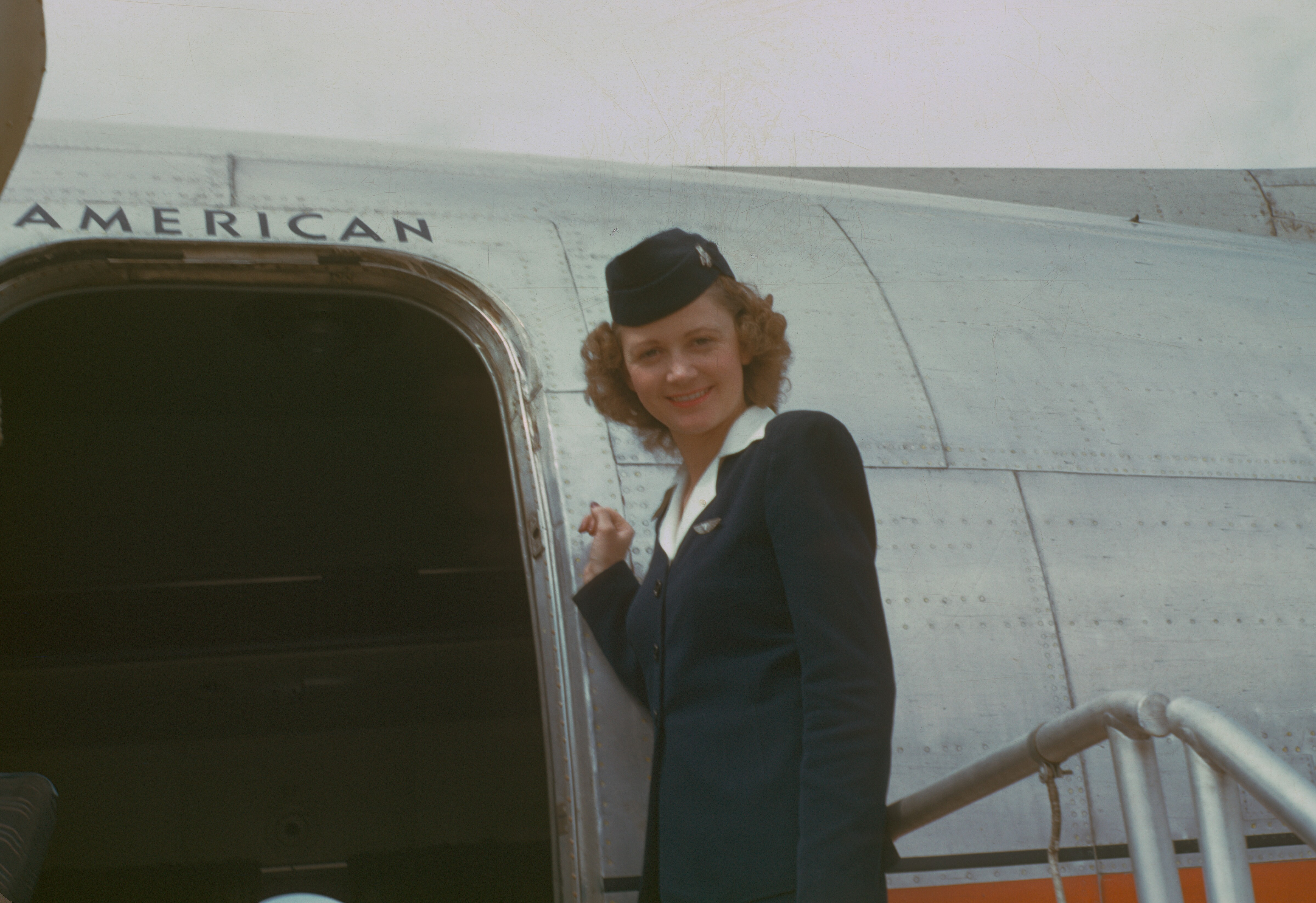 Stewardess, circa 1949-50, American Overseas, Flaghip Denmark, Boeing 377 Stratocruiser